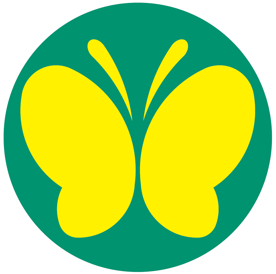 deaf driver label, japan